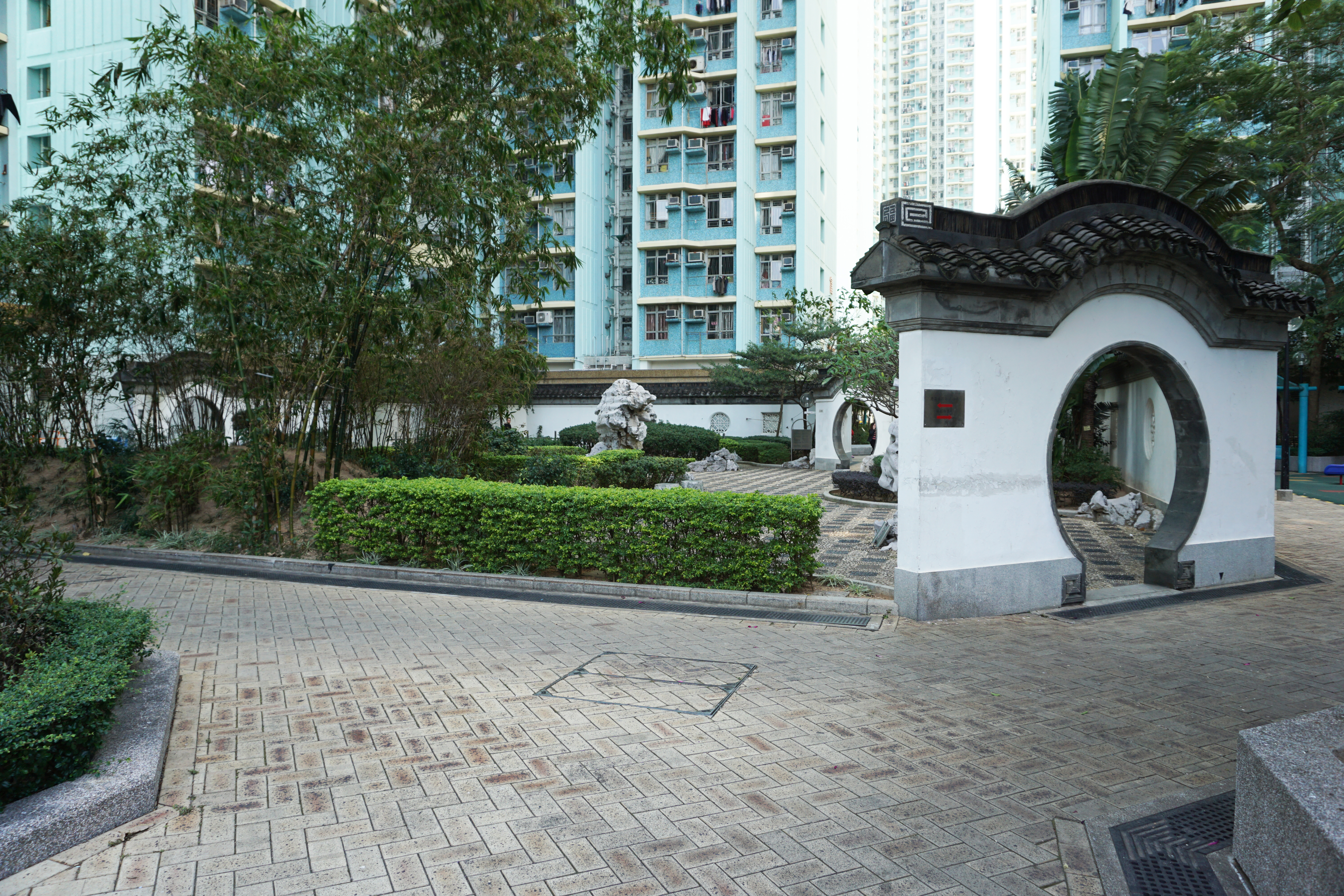 Fu Cheong Estate in Sham Shui Po, Hong Kong.